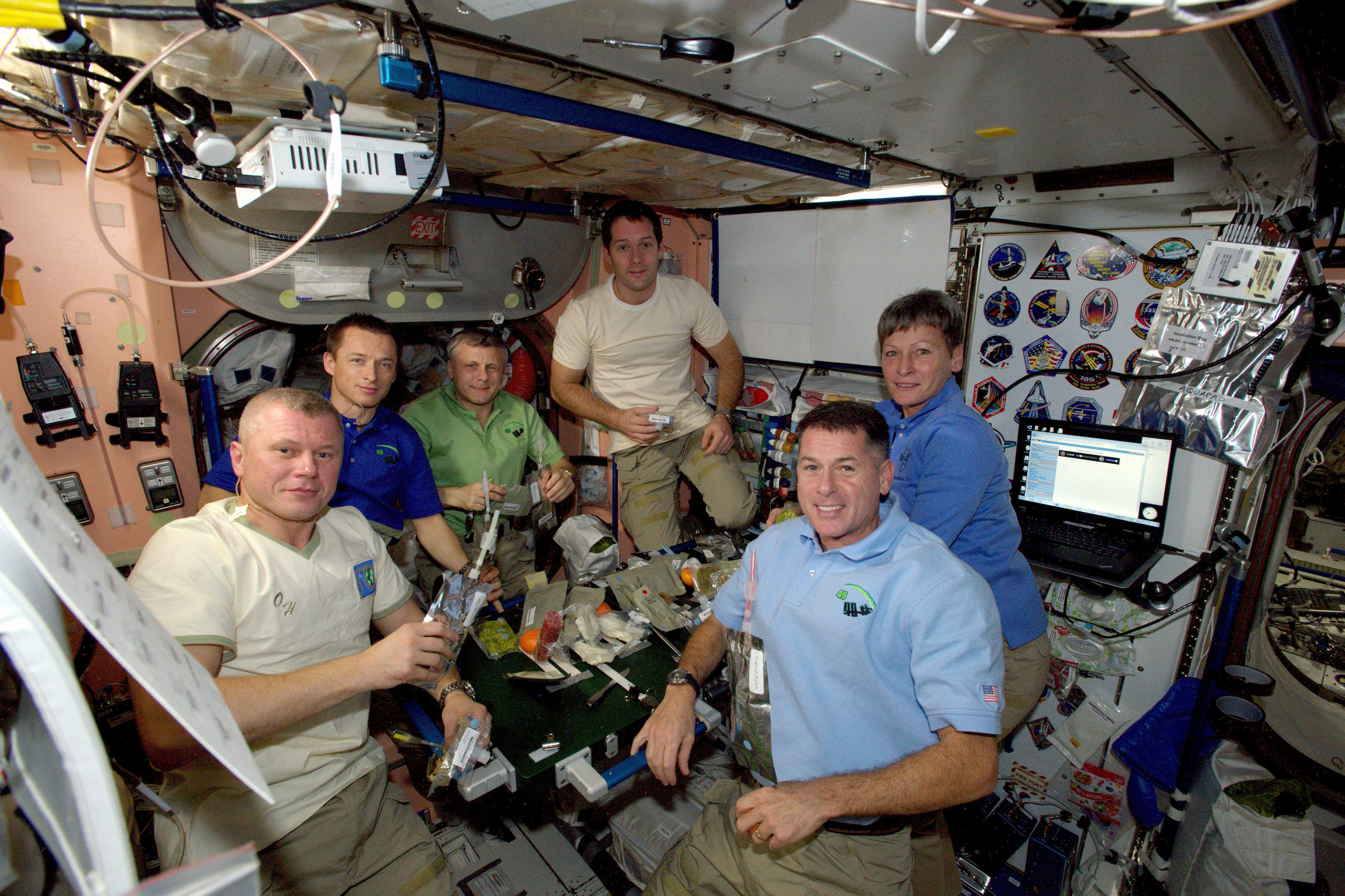 The six crewmembers of Expedition 50 celebrate Thanksgiving Day aboard the International Space Station Nov. 24 with a traditional meal of turkey, stuffing, potatoes and vegetables — all from rehydrated packages brought to the station on resupply ships.